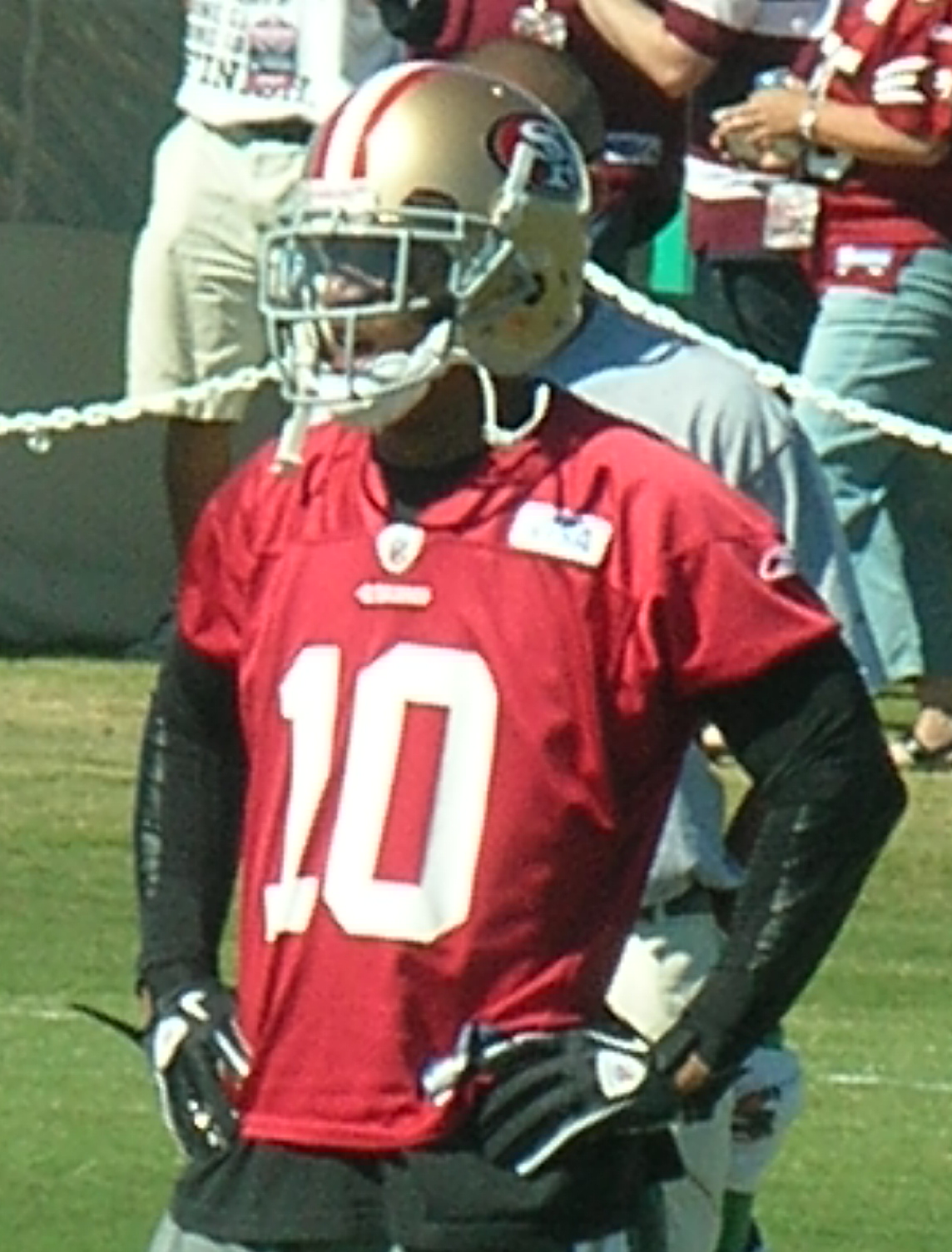 San Francisco 49ers wide receiver Kyle Williams at training camp in Santa Clara, California.